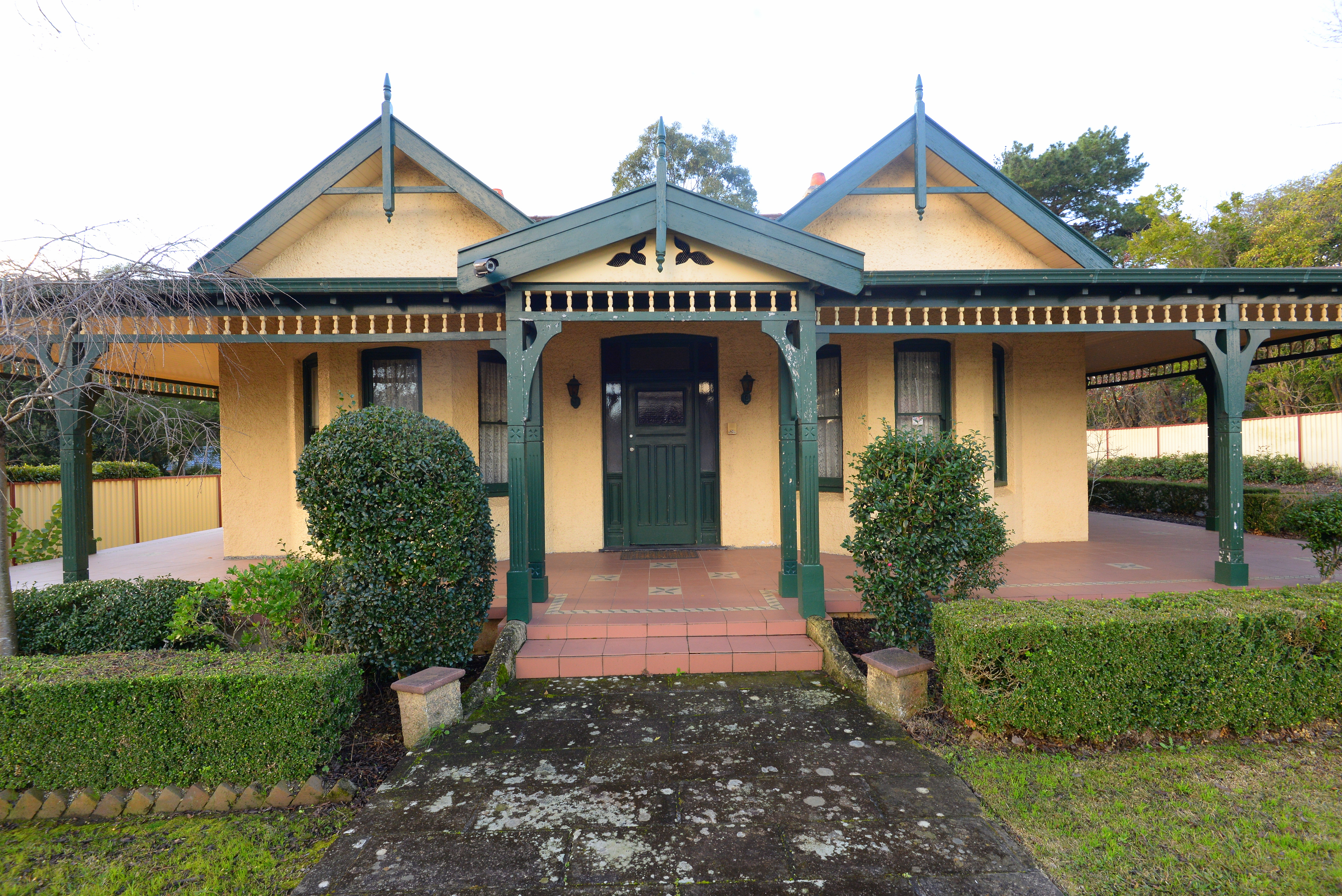 Patrick White's old house in Showground Road, Castle Hill, Sydney, where he lived before he moved to Centennial Park